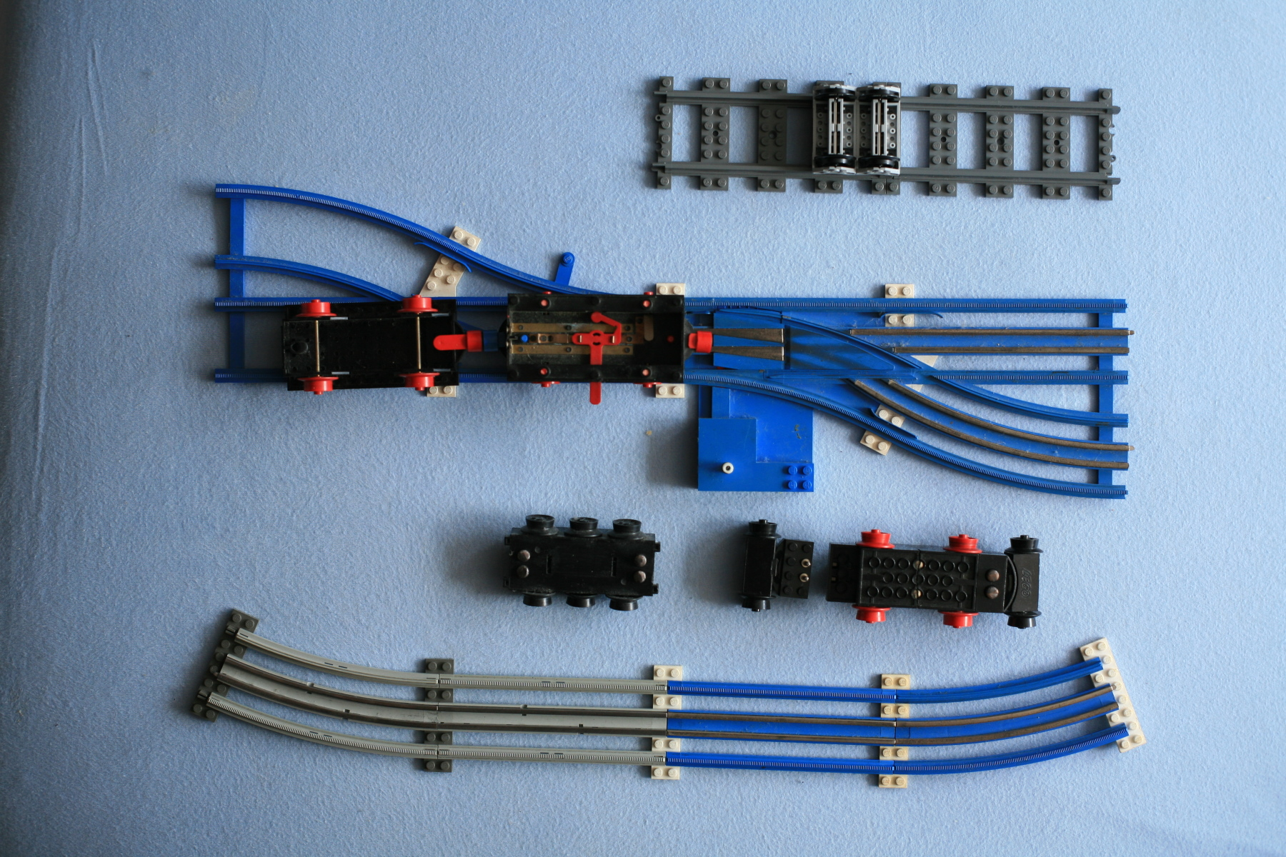 Different types of LEGO train parts